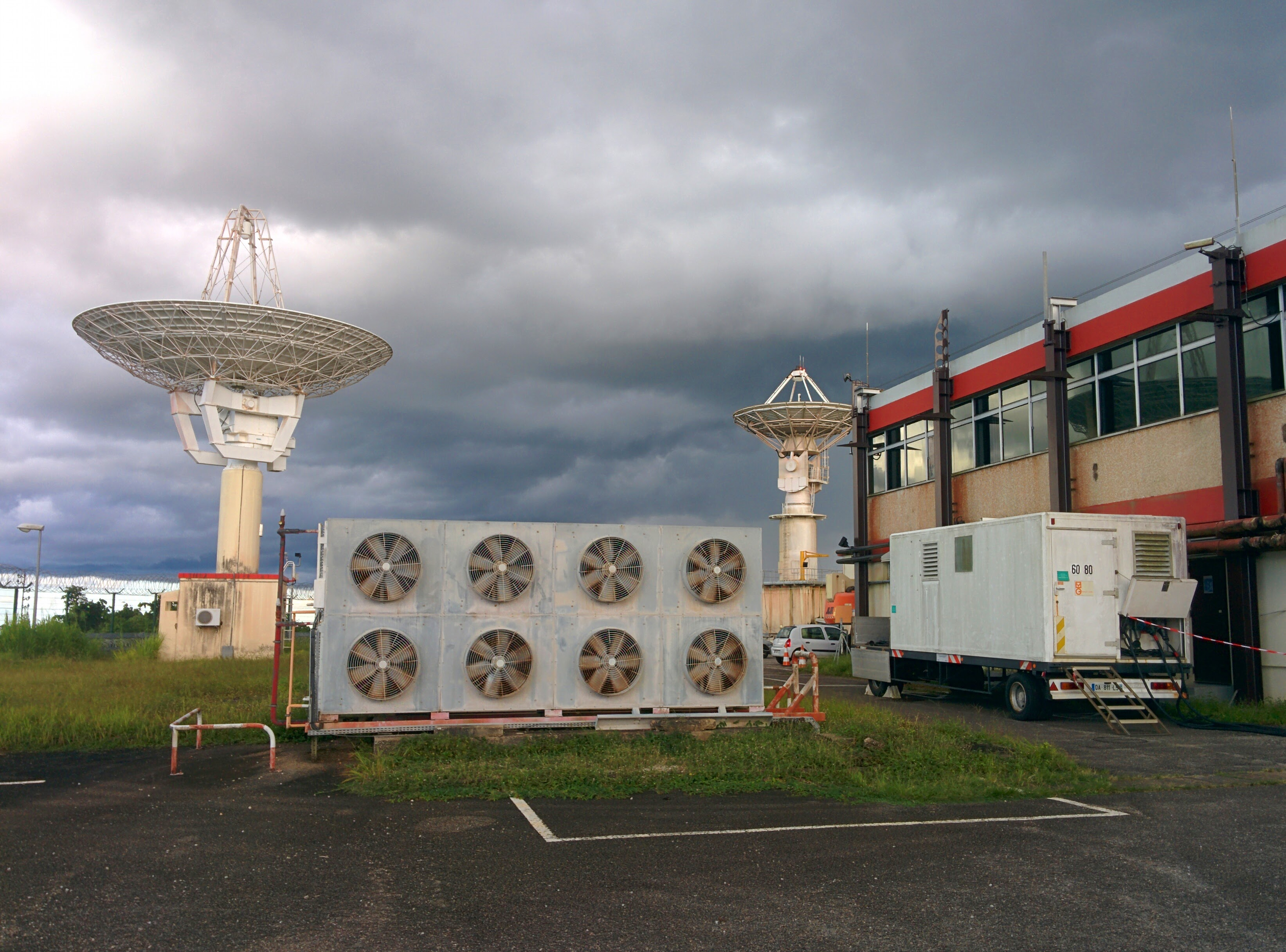 Galliot station of Guiana Space Centre, near Kourou in French Guiana.